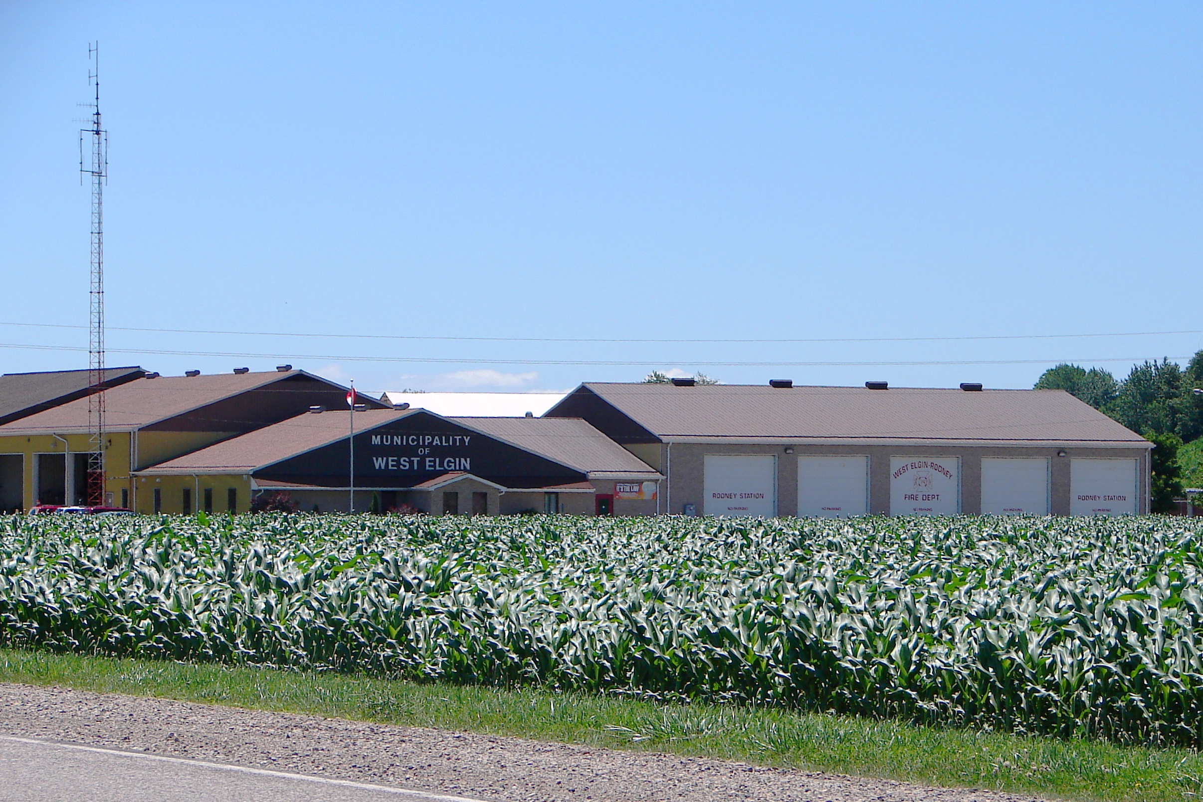 Township offices of West Elgin in Rodney, Ontario, Canada